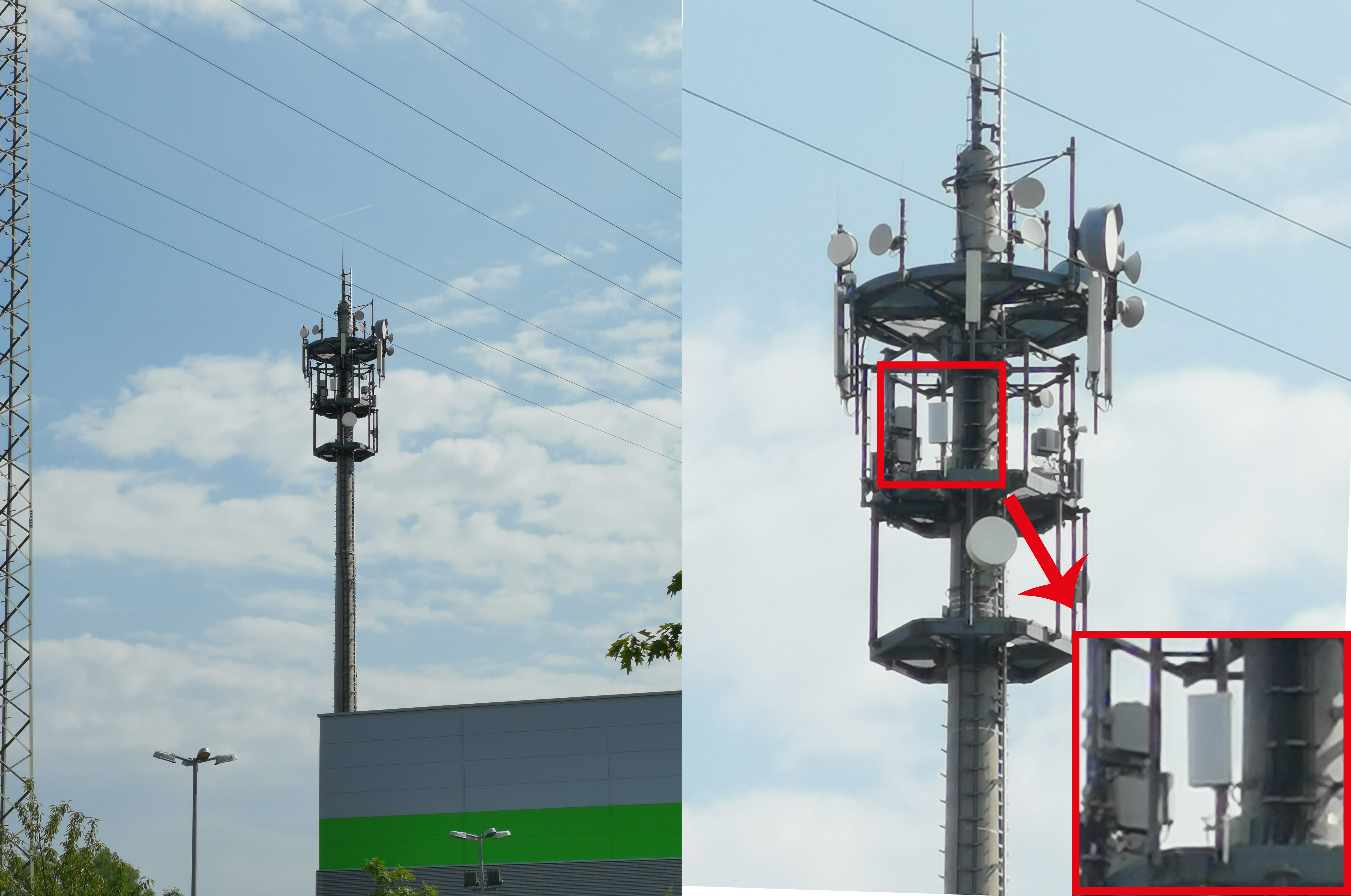 Vodafone cell site with 5G upgrade (3.500 MHz, Band n78)